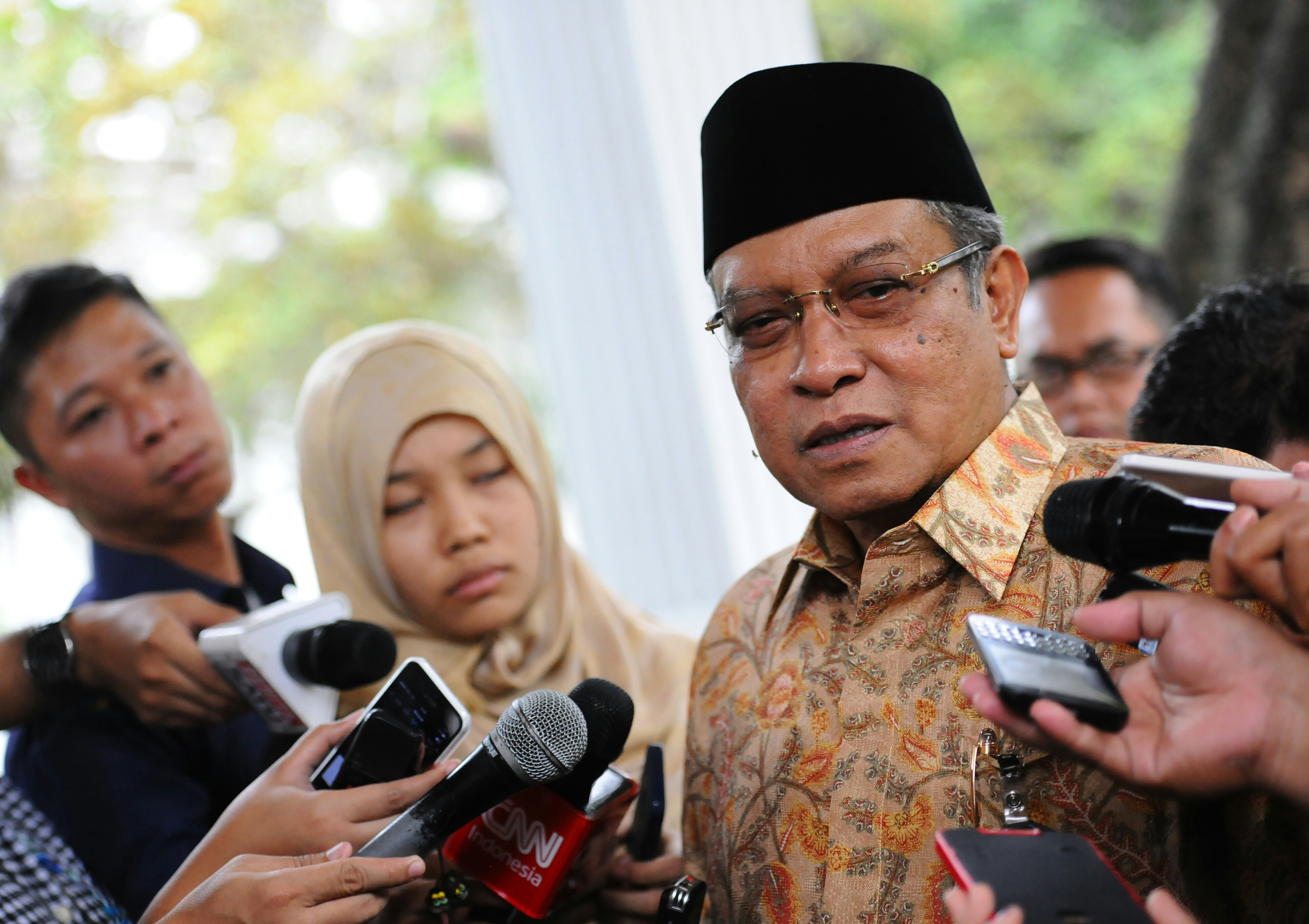 The Chairman of Nahdlatul Ulama Executive Board (PBNU) Said Aqil Siradj answering reporters’ questions at Merdeka Palace.